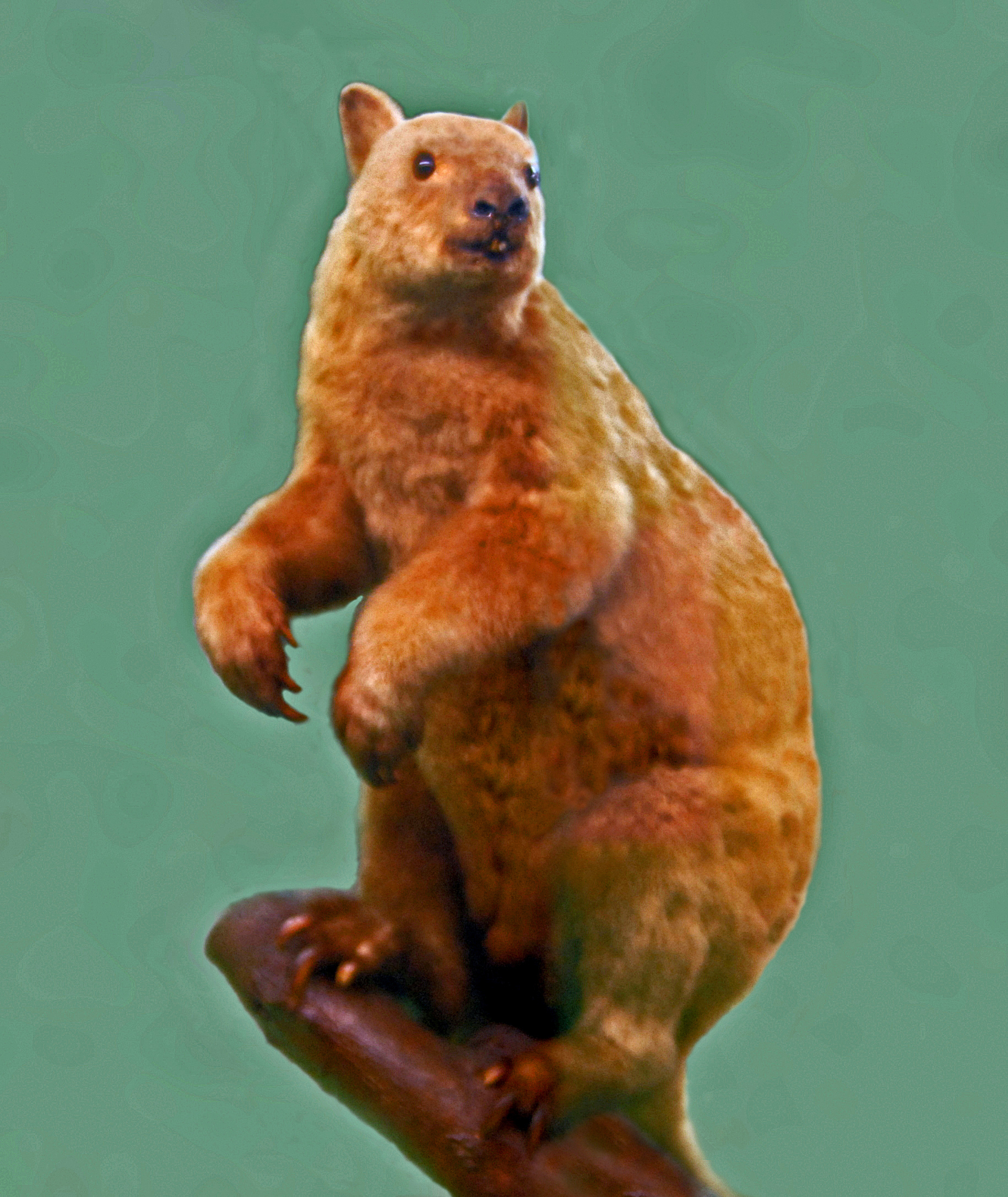 Macropodidae - Dendrolagus dorianus from New Guinea